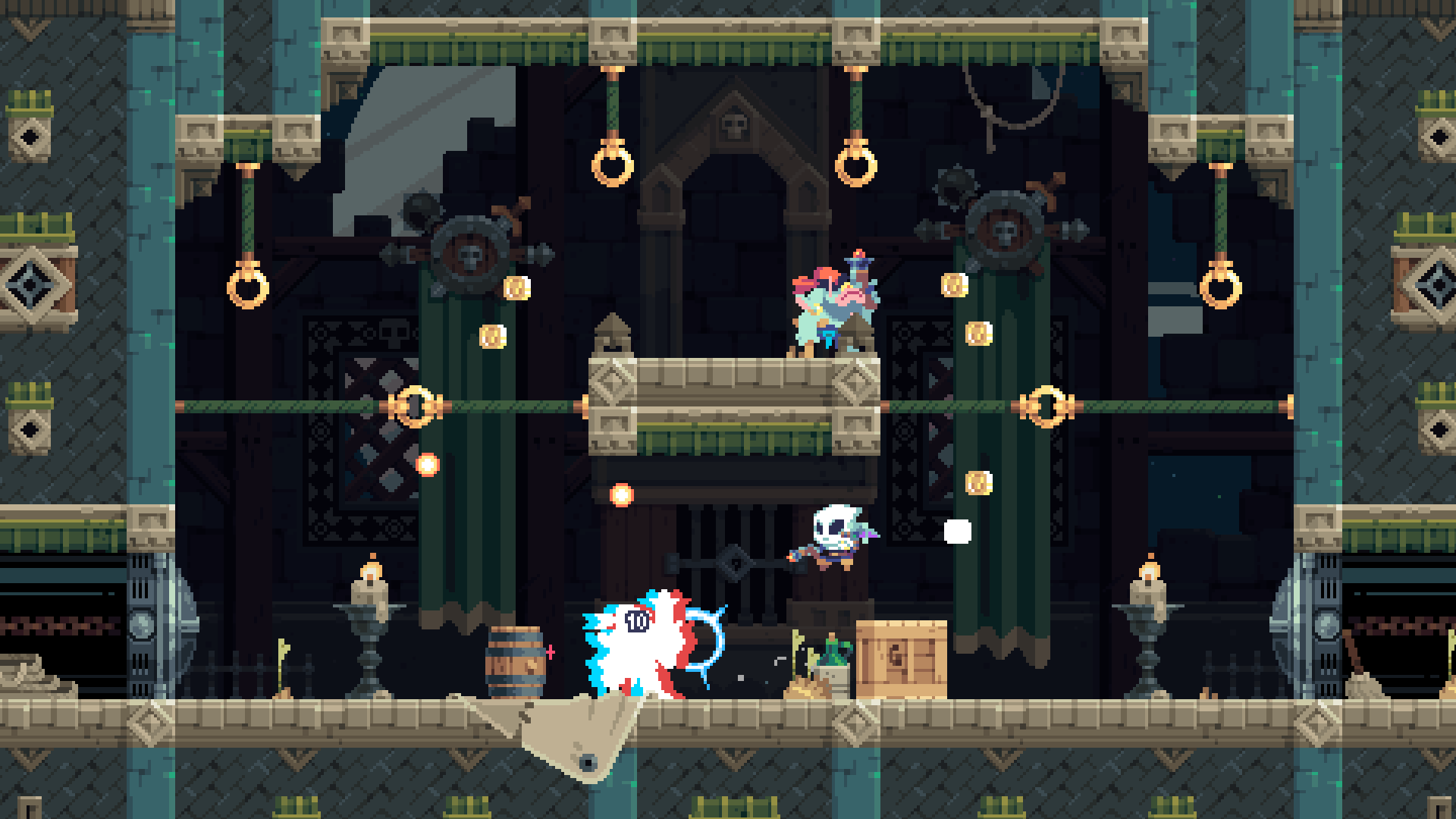 Screenshot from Tribute Games video game Flinthook